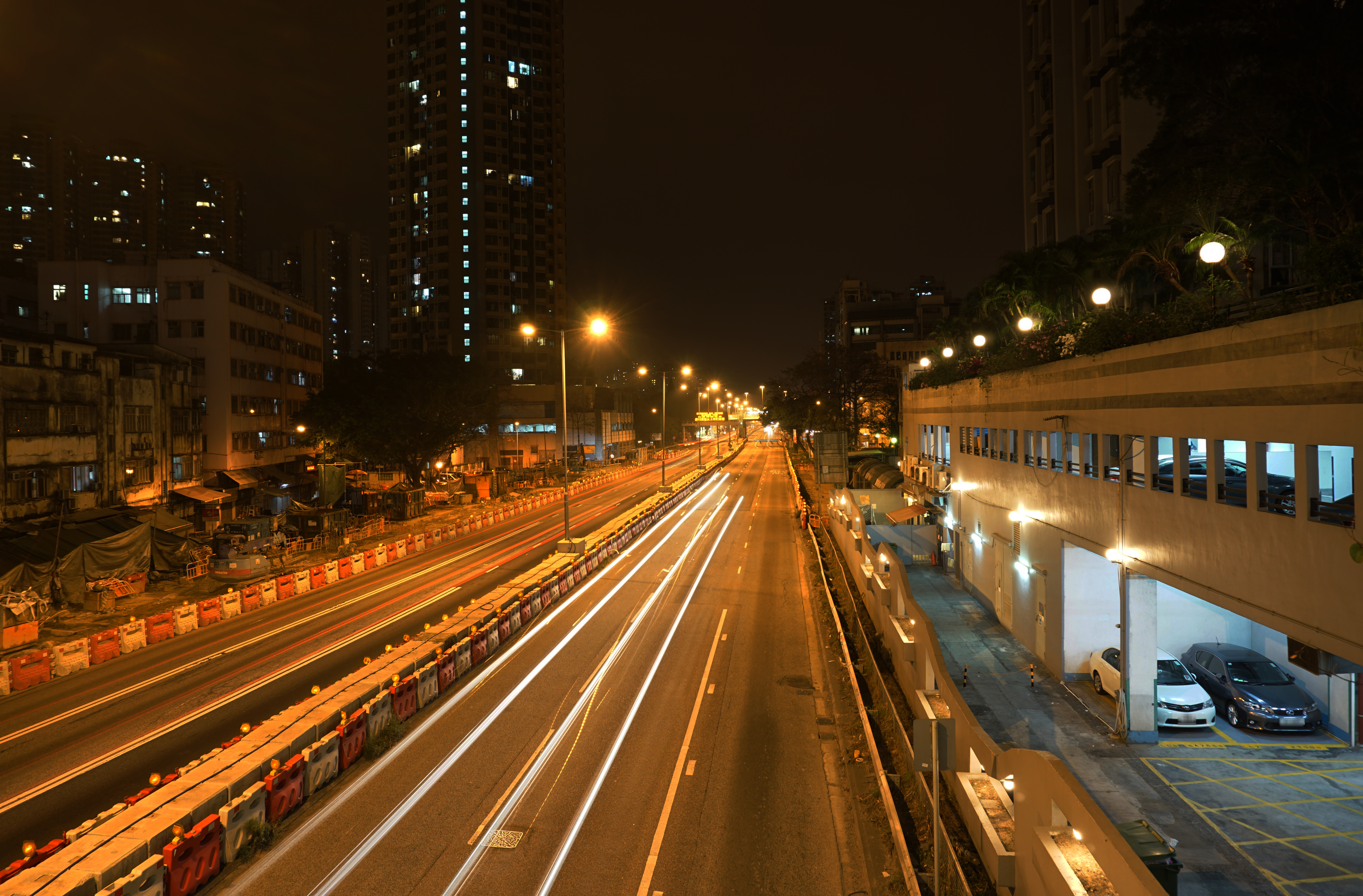 Tuen Mun Road in Tuen Mun, Hong Kong.